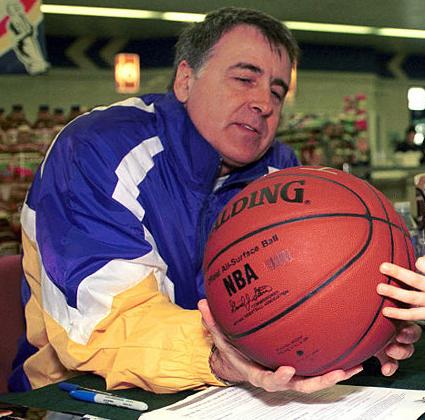 Cropped version of Ryan Caron (not shown), a five-year old dependant at Royal Air Force (RAF), Lakenheath, UK gets National Basketball Association (NBA) Hall-of-Famer Gail Goodrich to autograph his basketball. Mr. Goodrich is part of the 3RD Annual Hardcourt Hero's European Tour, where former NBA players are visiting 13 United States military bases throughout England and Germany. (Released to Public)